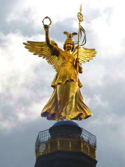 Victoria on top of the Berlin Victory Column in Berlin/Germany